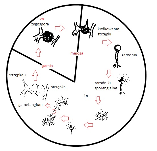 Life cycle Zygomycota